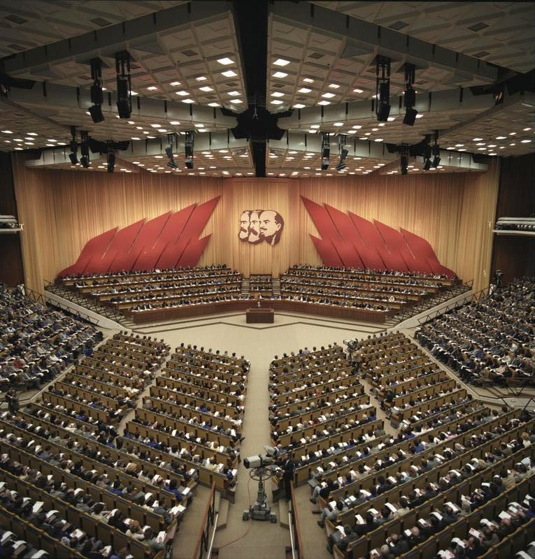 ADN-ZB Franke 17.4.86/Berlin: XI.SED-Parteitag Im Palast der Republik wurde der XI. Parteitag der SED eröffnet. Den Bericht des Zentralkomitees erstattete Erich Honecker, Generalsekretär des ZK der SED und Vorsitzender des Staatsrates der DDR. (In the Palace of the Republic, the 11th Party Congress opened. The report of the Central Committee was delivered by Erich Honecker, the General Secretary of the Socialist Unity Party Central Committee and Chairman of the Council of State of the German Democratic Republic.)